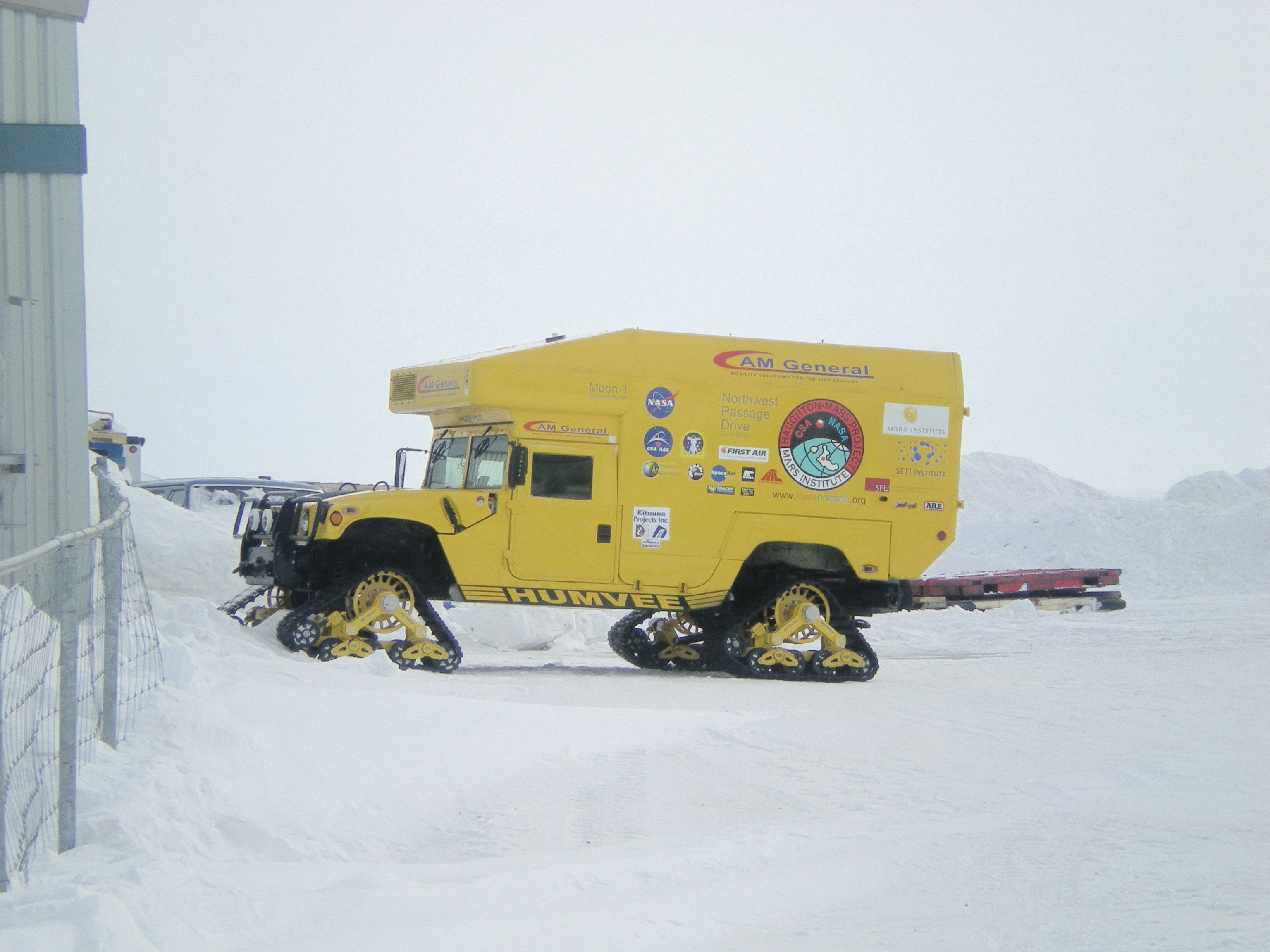 The Mars Institute Humvee waiting in Cambridge Bay, Nunavut, Canada for Herc transport to Resolute, Nunavut.